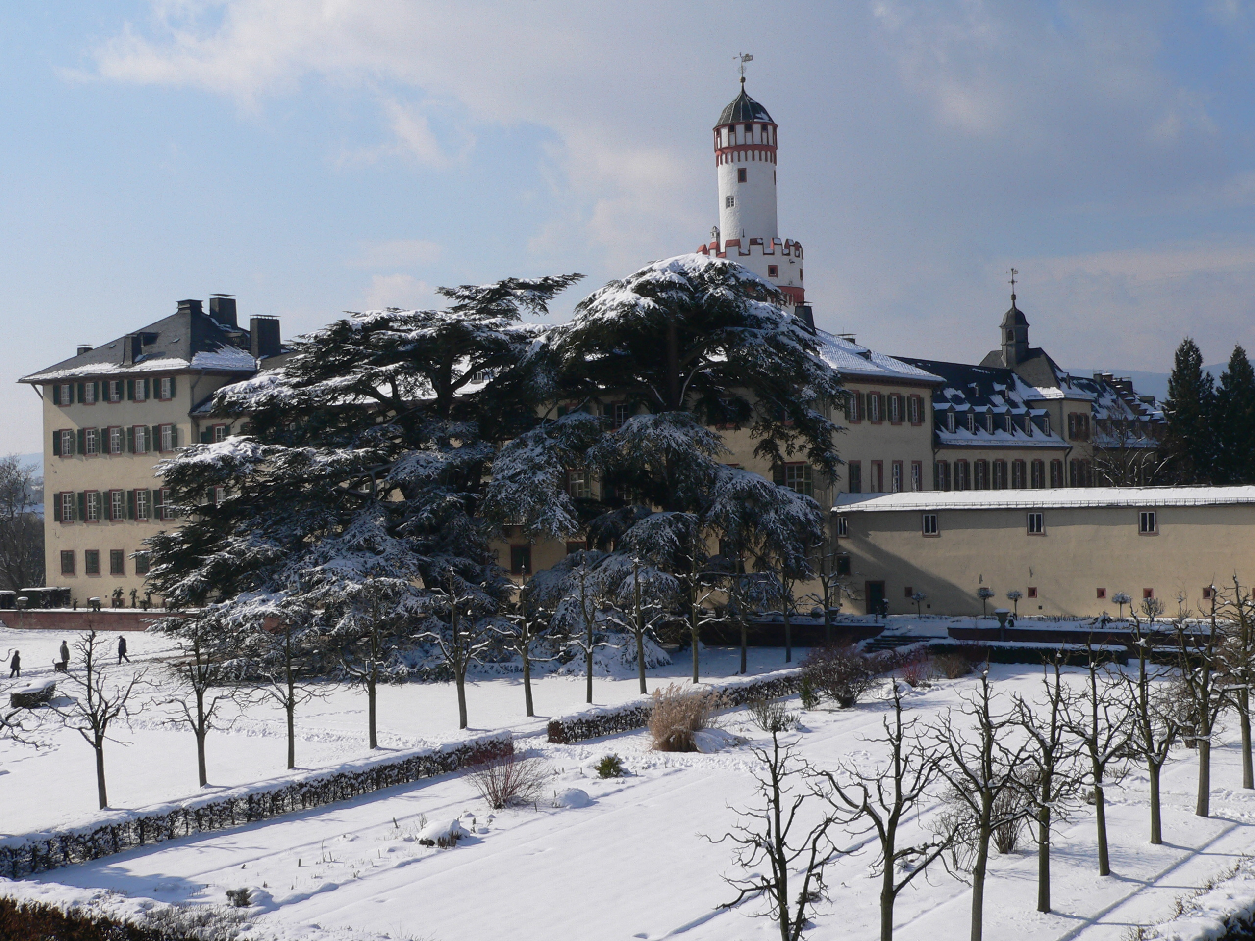 White Tower, Bad Homburg, Germany, March 2006. Rjh1962c Private photo.